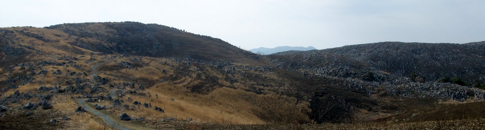 Karst topography at Akiyoshidai in Yamaguchi prefecture